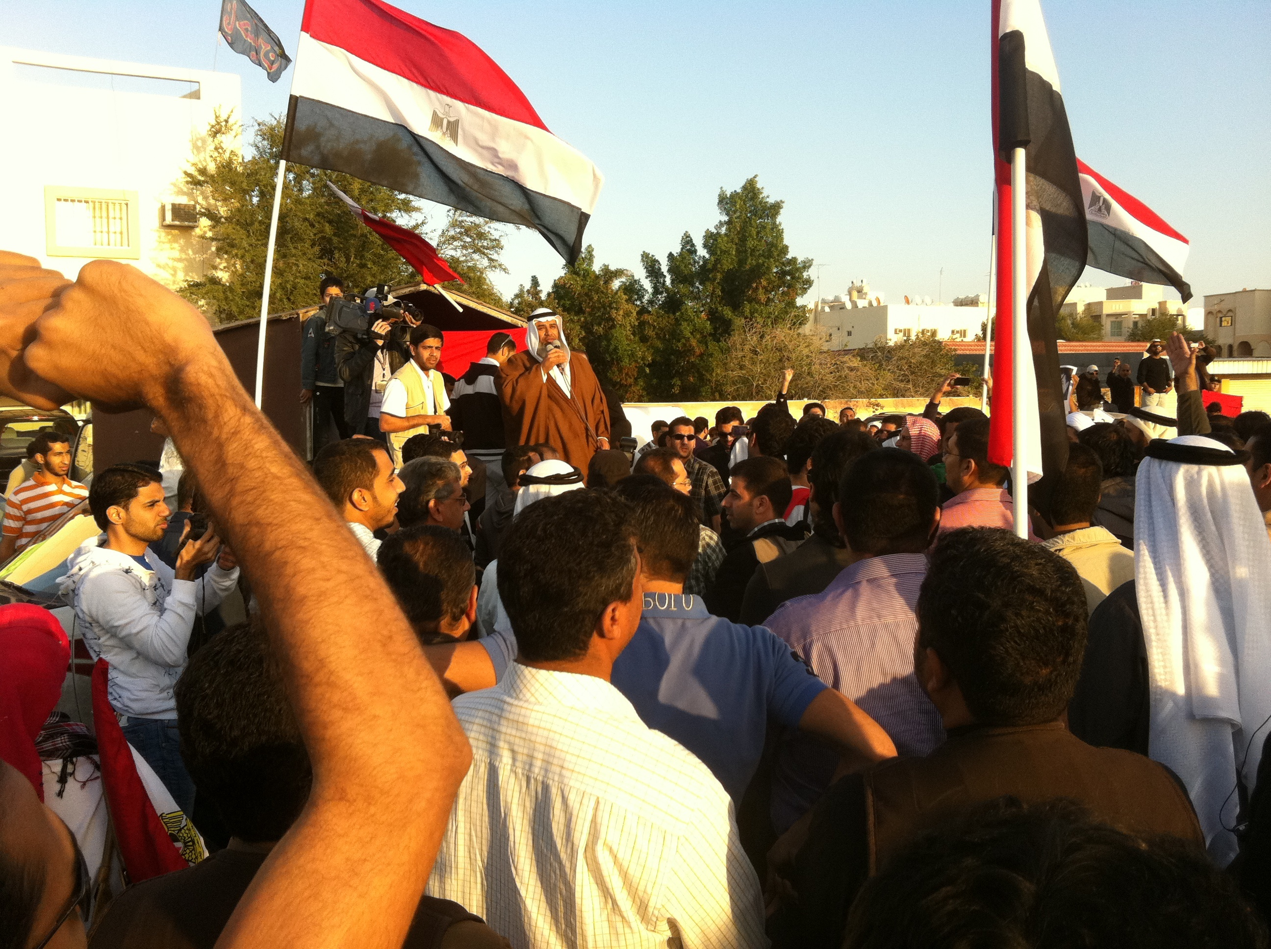 Protester in Bahrain in solidarity with the Egyptian uprising